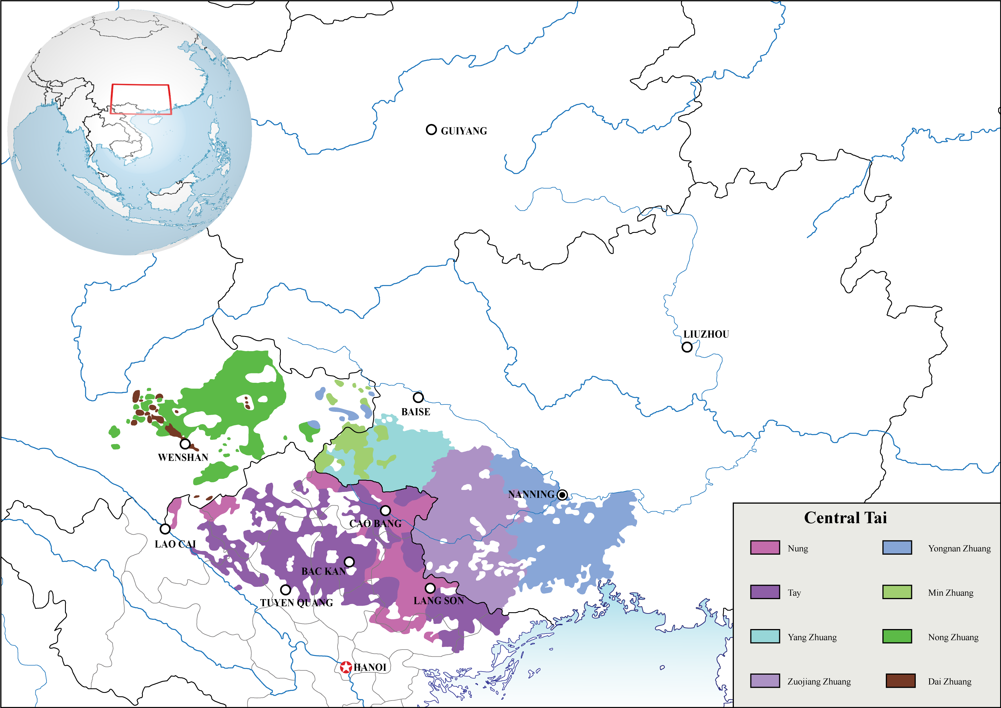 Geographic distribution of Central Tai languages Sources: Major Zhuang Language Groups and Related Peoples (Joshuaproject) [1]. Map of Ethnic Groups in Vietnam (IKAP Network for Capacity Building in MMSEA, 2005), cited by Emilie Ellis, Jae Yun Jeong and Margaret Munroe in Comparative Perspectives on Forest Management and Development: Vietnam in Transition and Lessons from China, p. 9 [2]. Its vector version can be found here: Central Tai.svg